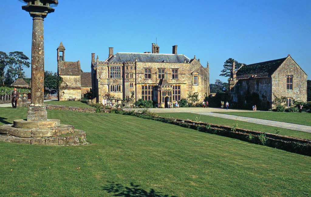 Brympton D'Evercy House (2)